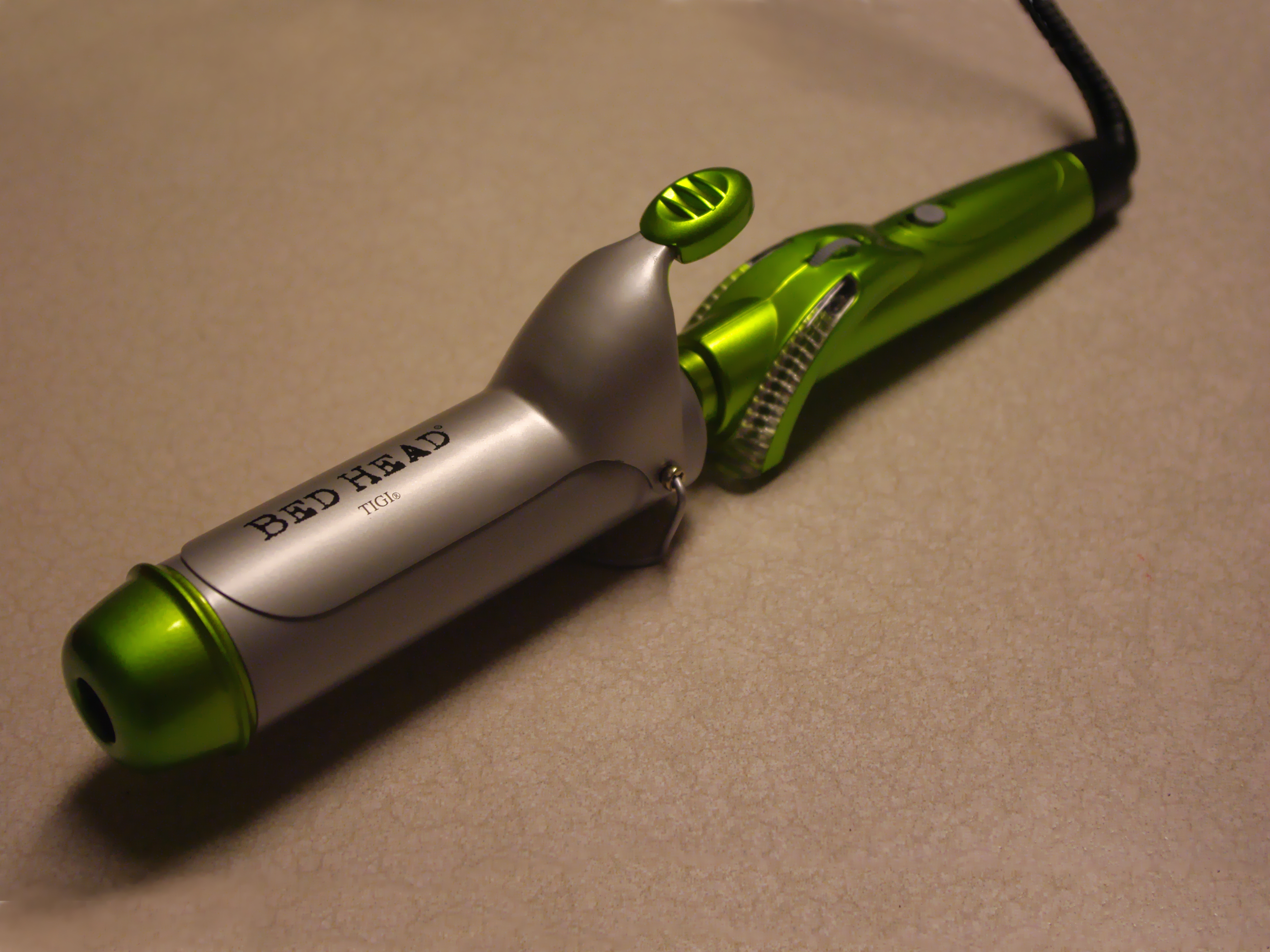 Bed Head 1 3/4 inch curling iron